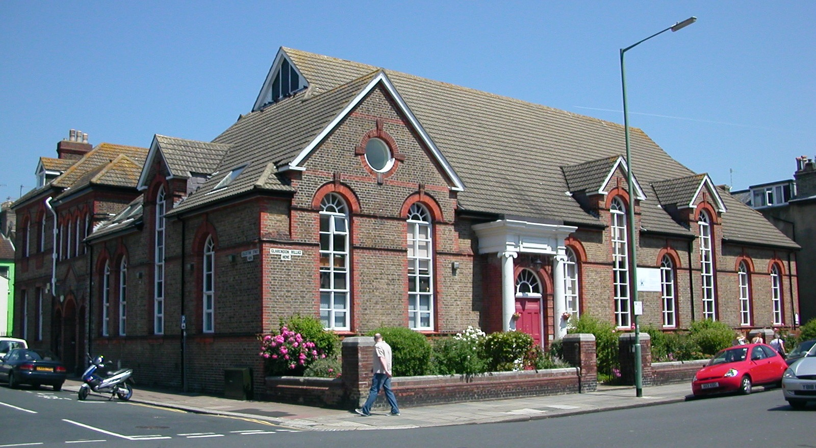 Former mission hall formerly used as the "Clarendon Church" for Church of Christ the King evangelical church, Clarendon Villas, Hove, England.